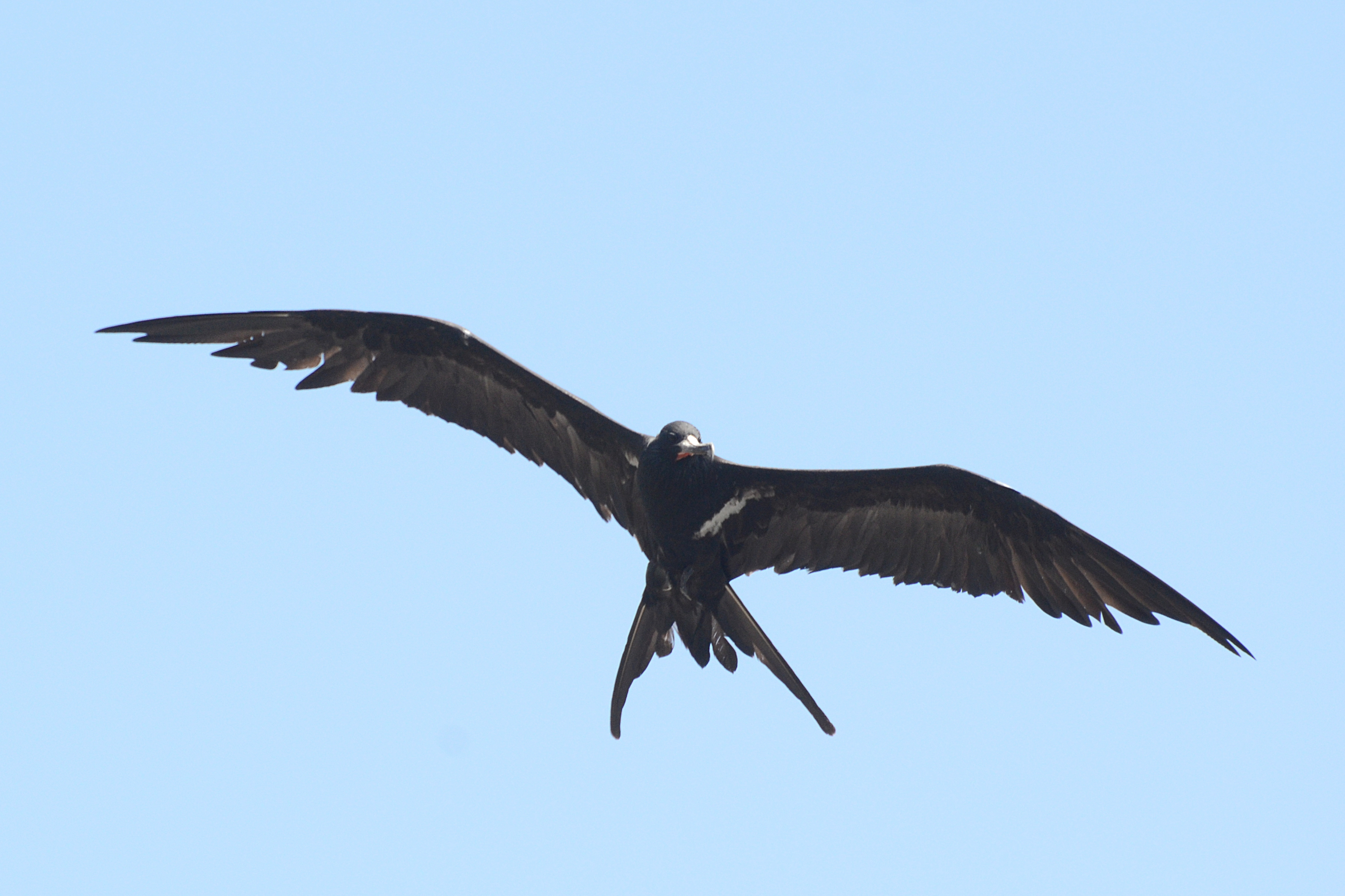 Male of lesser frigatebird (Fregata ariel) at Labuan Tawoa, Batuputih, North Sulawesi